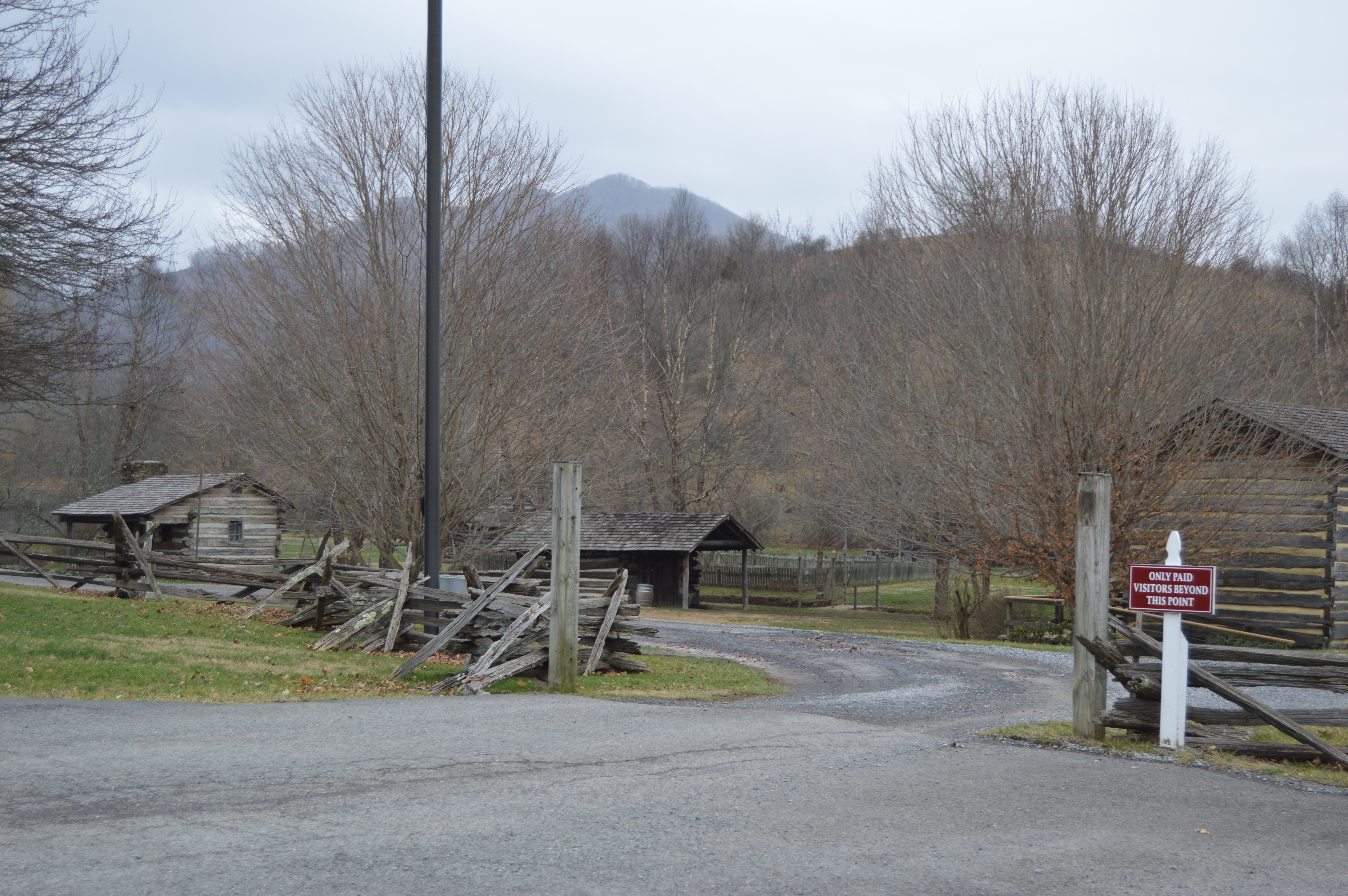 Buildings at the Historic Crab Orchard Museum, located along U.S. Route 460 at 3663 Crab Orchard Road, just west of Tazewell, in Tazewell County, Virginia, United States. This was the site of Big Crab Orchard, one of the earliest settlements in the region, and it is listed on the National Register of Historic Places as an archaeological site.